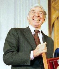 From President and Mrs. George H. W. Bush present the Medal of Arts to John Updike at the White House. 17 November 1989 Photo Credit: George Bush Presidential Library This is a retouched picture, which means that it has been digitally altered from its original version. Modifications: Crop. The original can be viewed here: John Updike with Bushes.jpg: . Modifications made by Grunge6910.